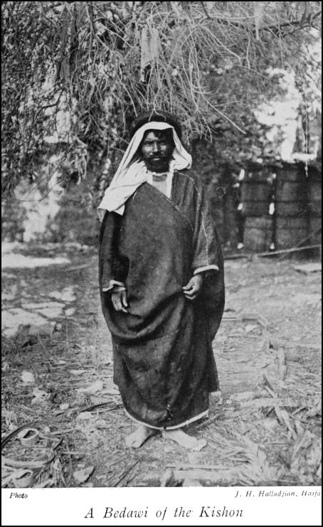 A Bedouin of the Kishon, 1913.